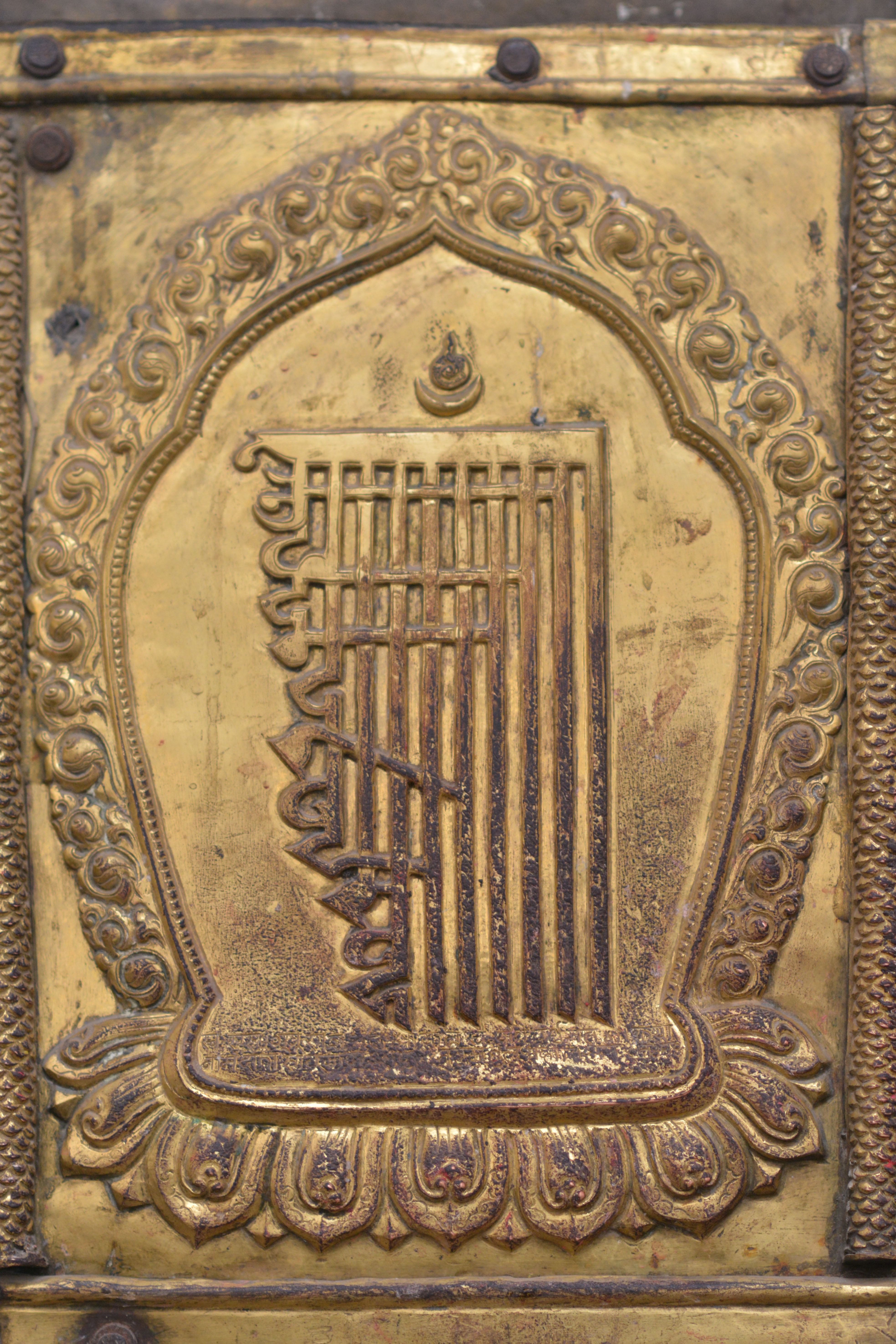 A Kutākshar monogram on the facade of the Karunamaya temple, Jana Bahal.